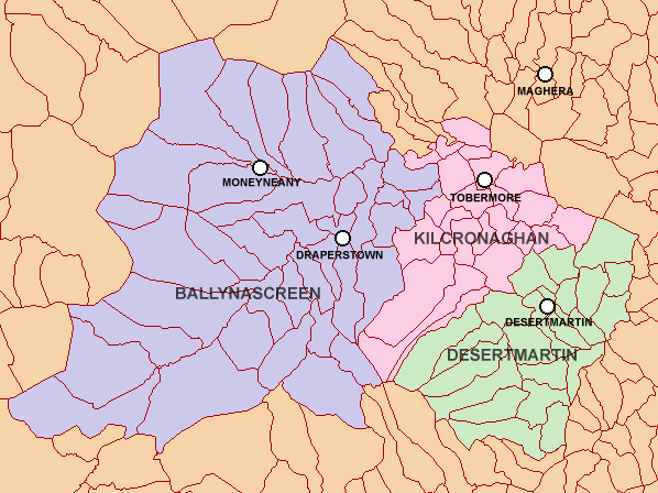 Map of the ancient Irish tuath of Glenconkeyne showing the civil parishes and townlands that constitute it.